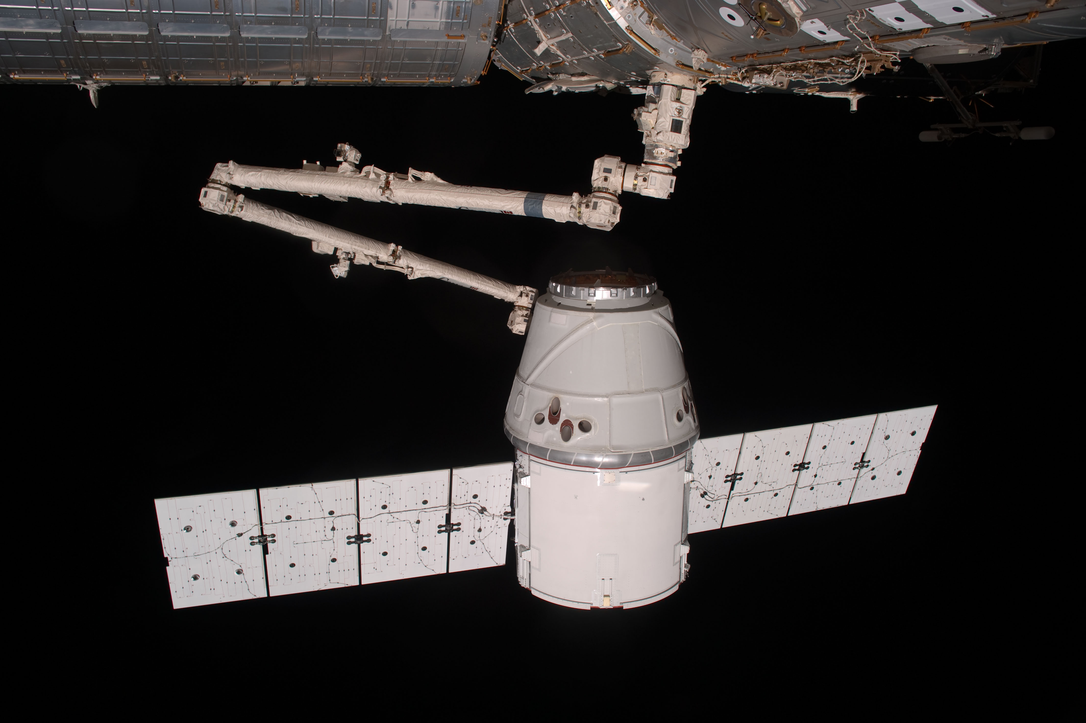 The SpaceX Dragon commercial cargo craft is grappled by the Canadarm2 robotic arm at the International Space Station. Expedition 31 Flight Engineers Don Pettit and Andre Kuipers grappled Dragon at 9:56 a.m. (EDT) and used the robotic arm to berth Dragon to the Earth-facing side of the station's Harmony node at 12:02 p.m. May 25, 2012. Dragon became the first commercially developed space vehicle to be launched to the station to join Russian, European and Japanese resupply craft that service the complex while restoring a U.S. capability to deliver cargo to the orbital laboratory. Dragon is scheduled to spend about a week docked with the station before returning to Earth on May 31 for retrieval.